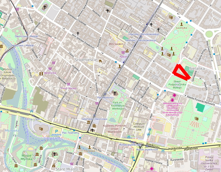 Location in Bydgoszcz